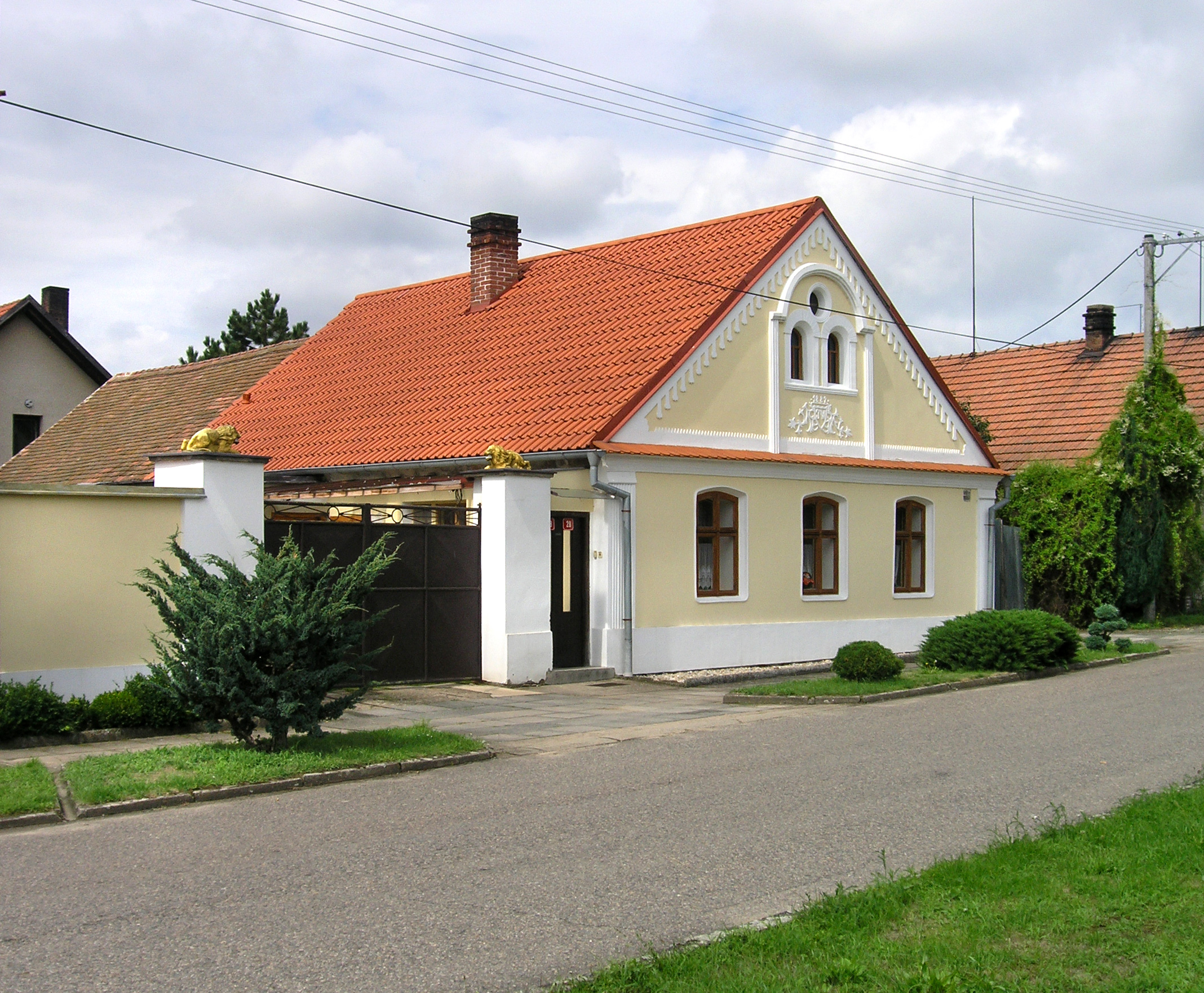 Old farm Habrkovice, part of Záboří nad Labem, Czech Republic